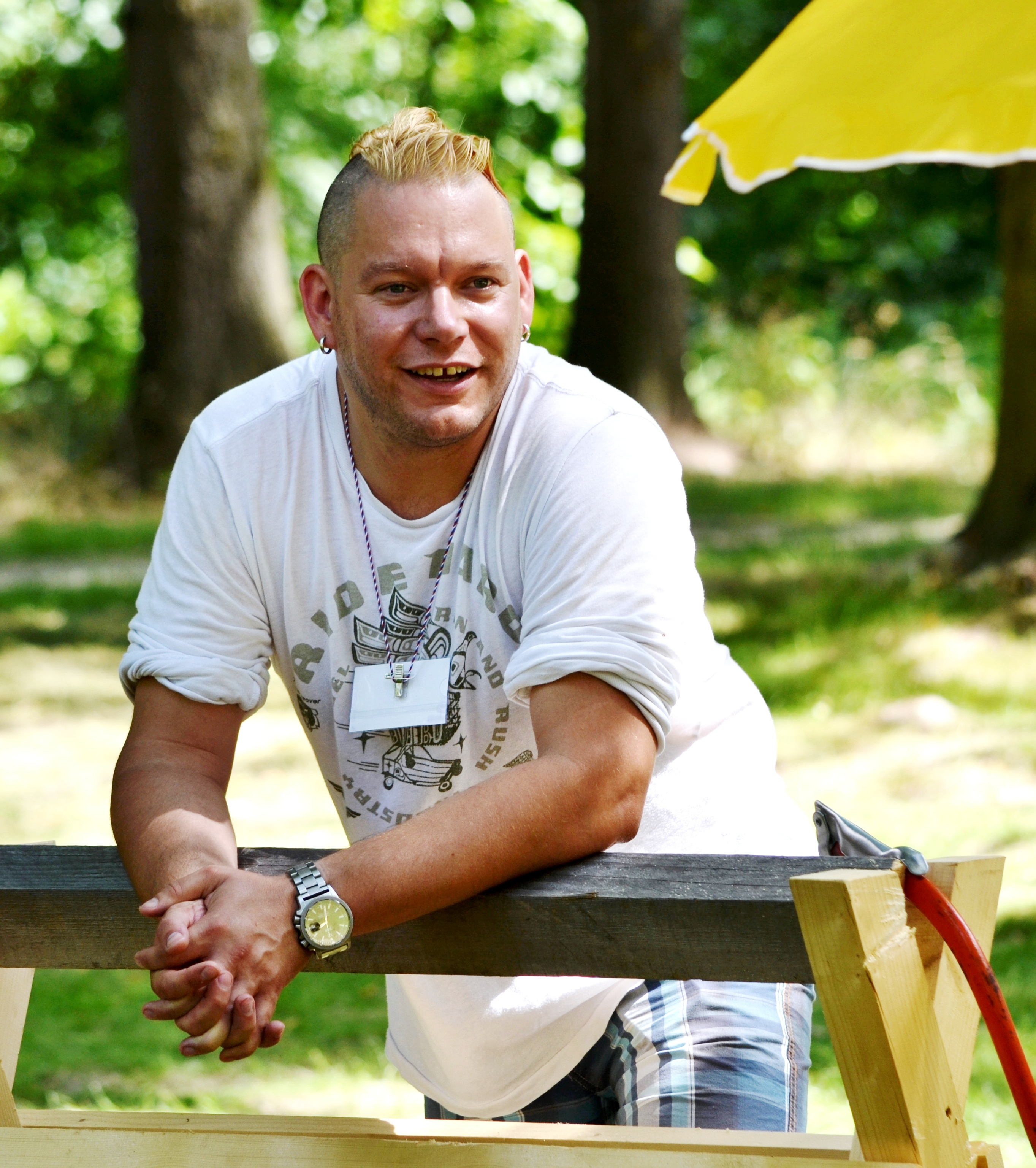 Matěj Ruppert, Czech vocalist